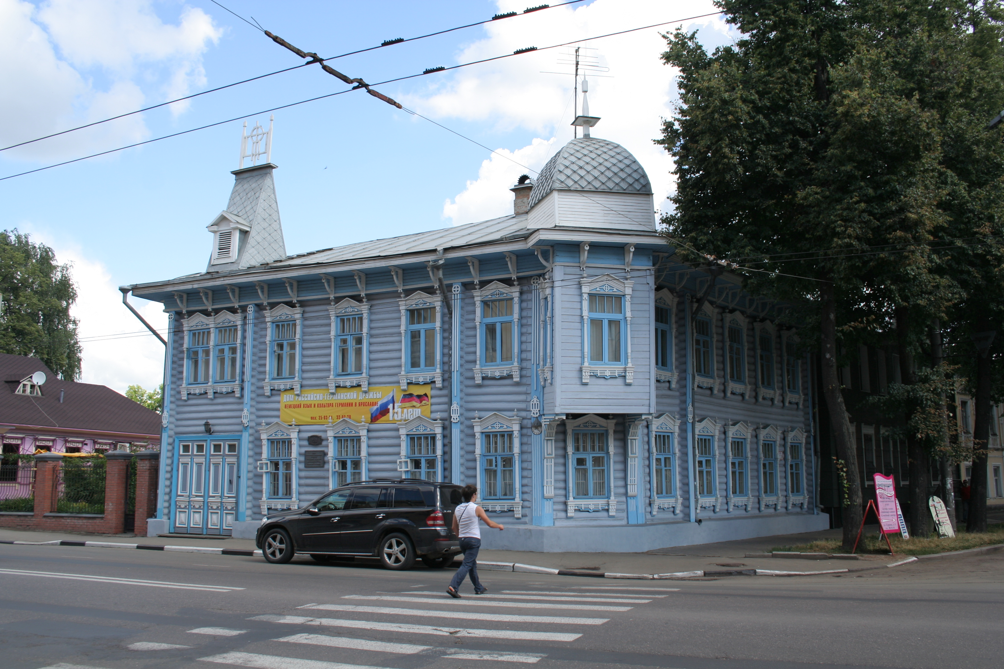 House of the german-russian friendship in Yaroslavl, Russia